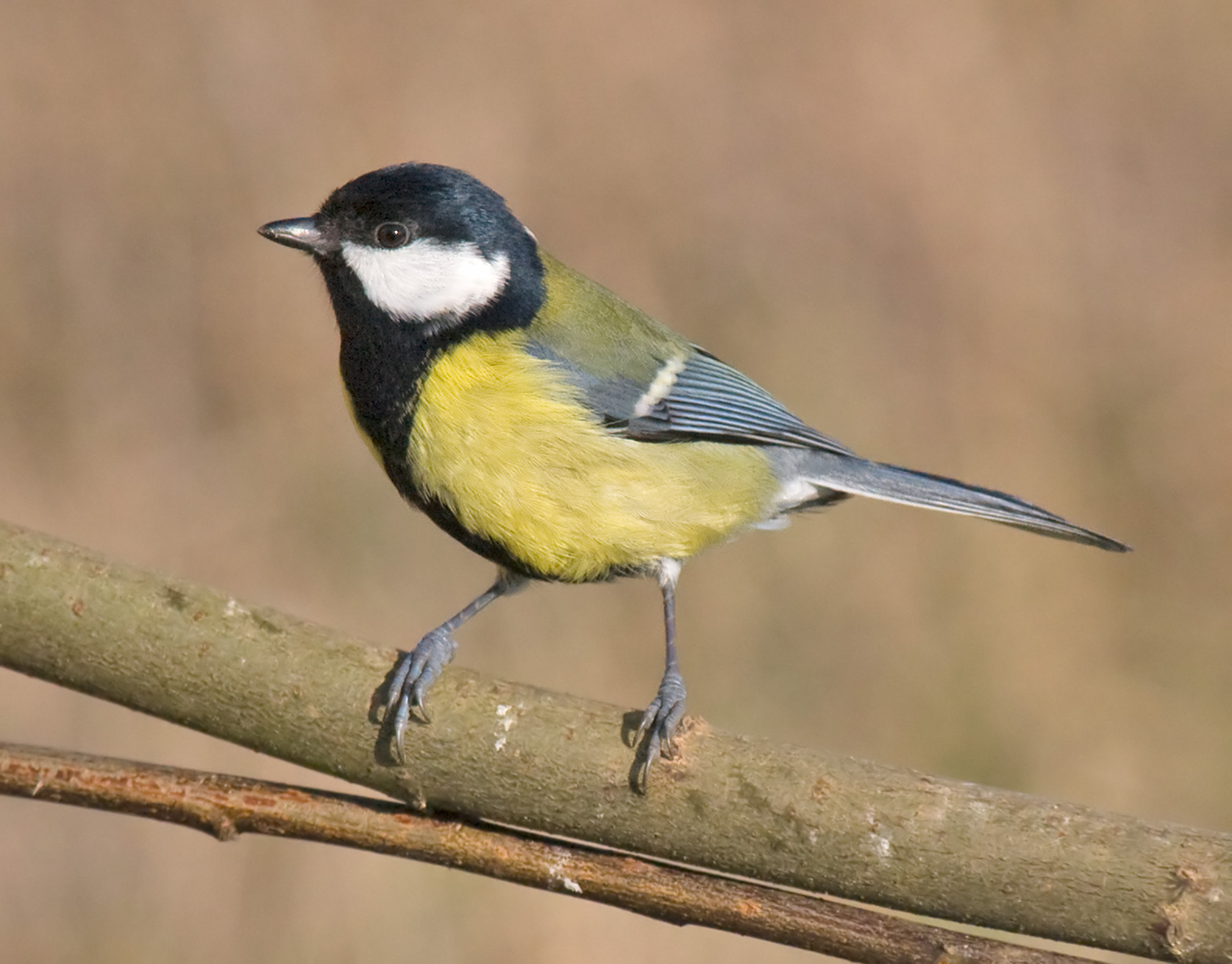 Great Tit